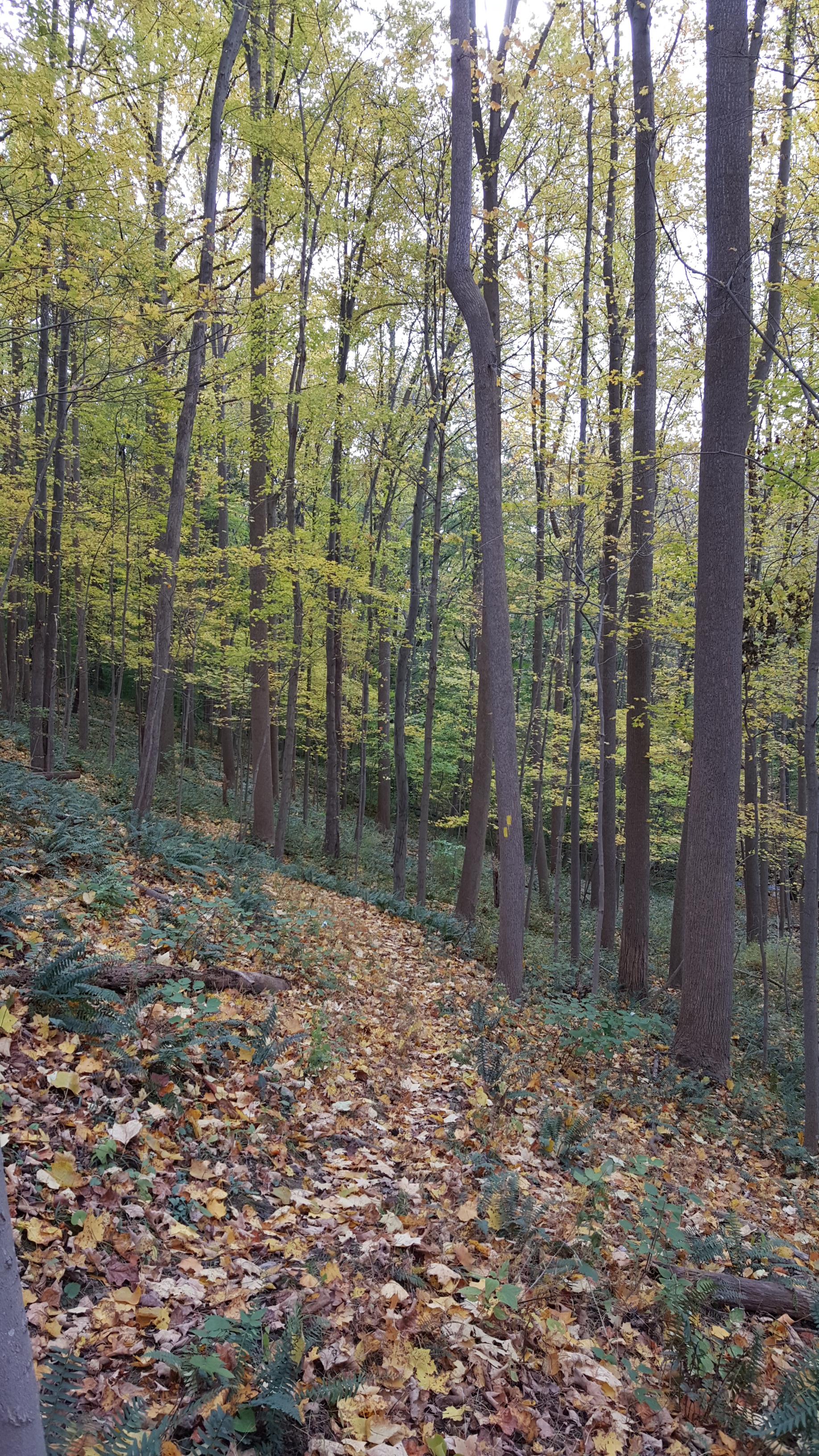 On the Grist Mill Trail in Swartswood State Park, located in Stillwater Township, Sussex County, New Jersey.